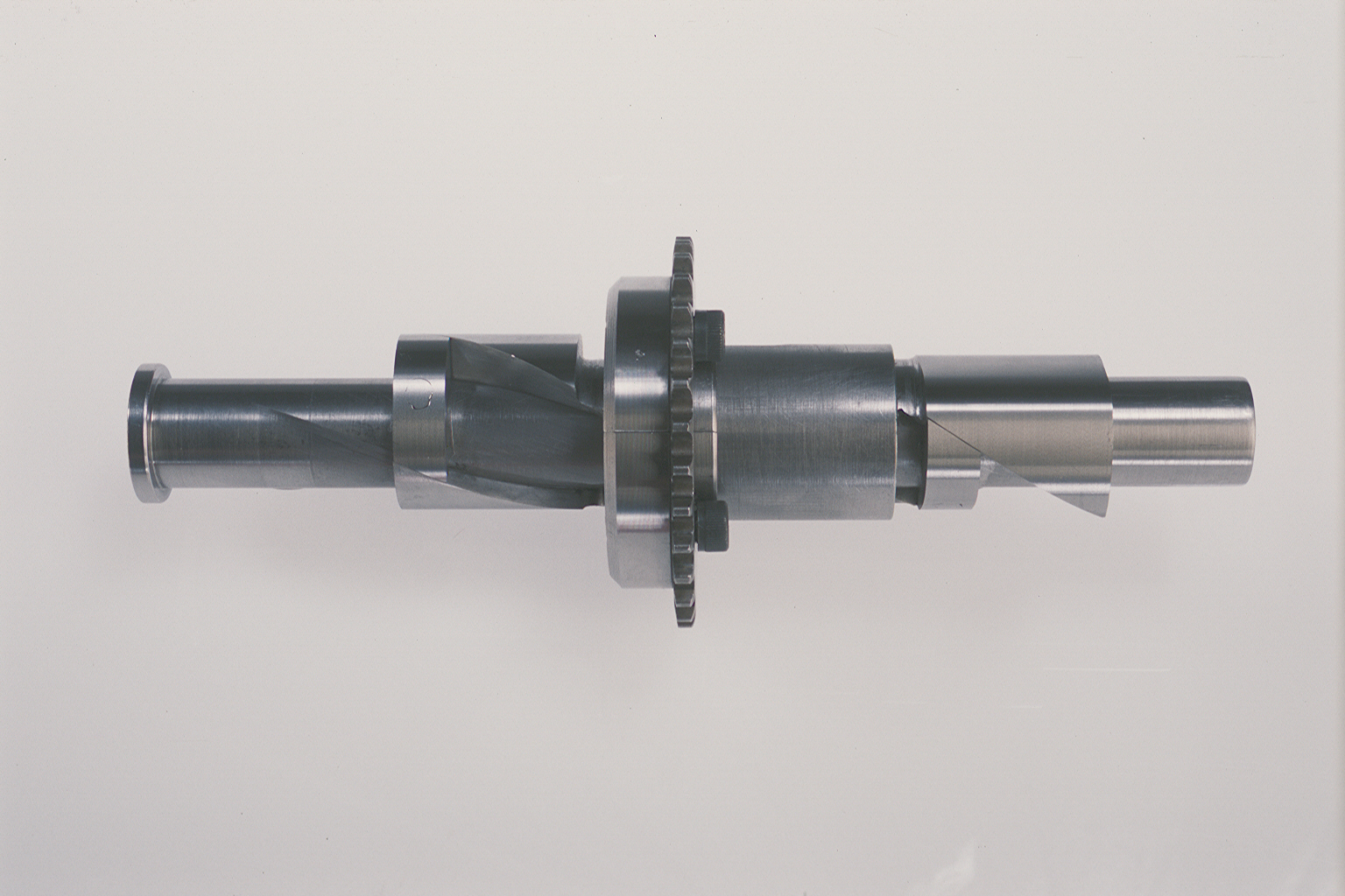 General view of Suzuki GSX 250 Helical camshaft. Cam is in minimum duration position.